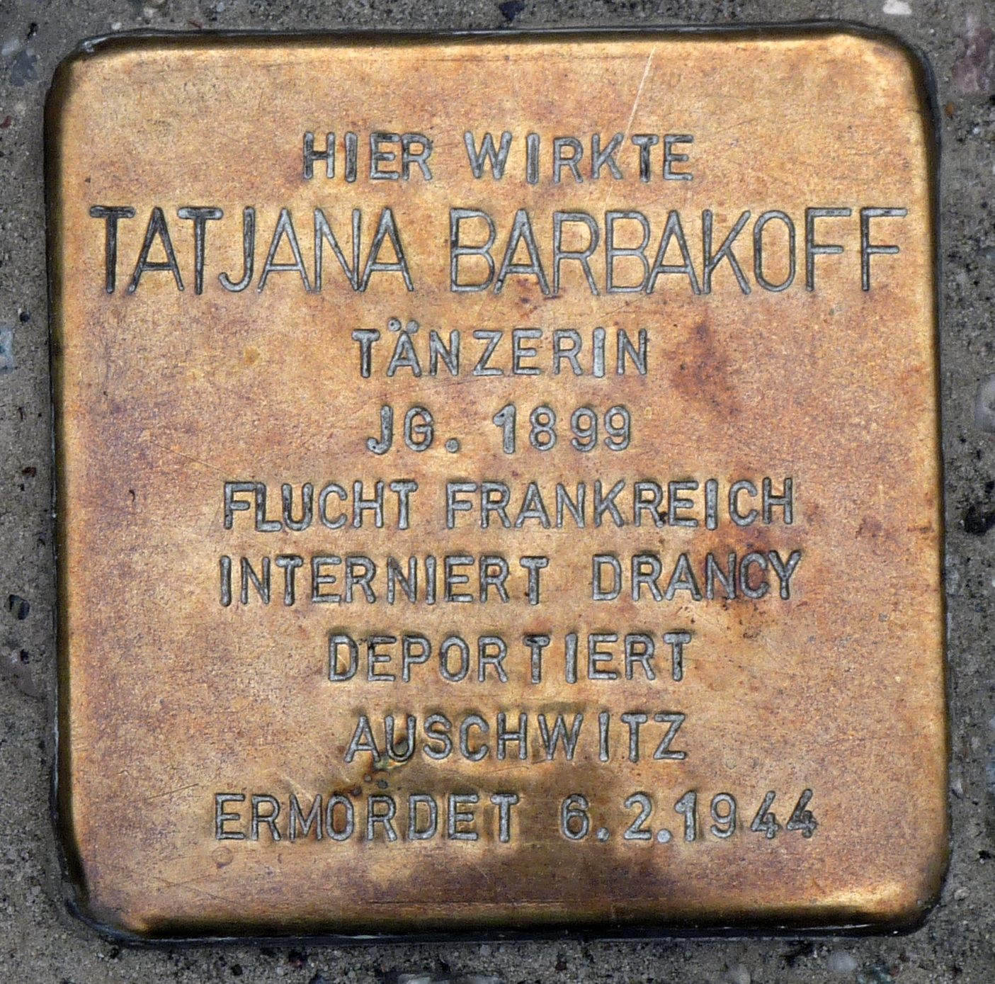 "Stolperstein" (stumbling block), Tatjana Barbakoff, Knesebeckstraße 100, Berlin-Charlottenburg, Germany